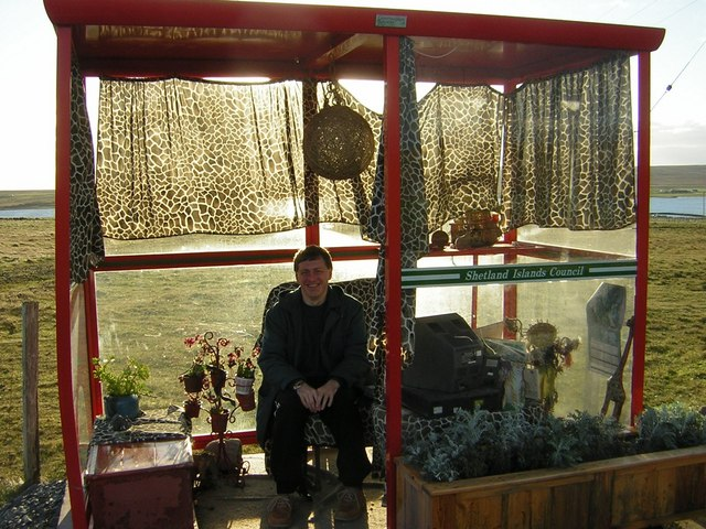 Bobby's bus shelter, near to Baltasound, Shetland Islands, Great Britain. Obligatory photo opportunity for visitors to Unst! The visitors book suggests a wide appreciation of this bus shelter which even has its own website Link as appreciated by many bus shelter spotters!